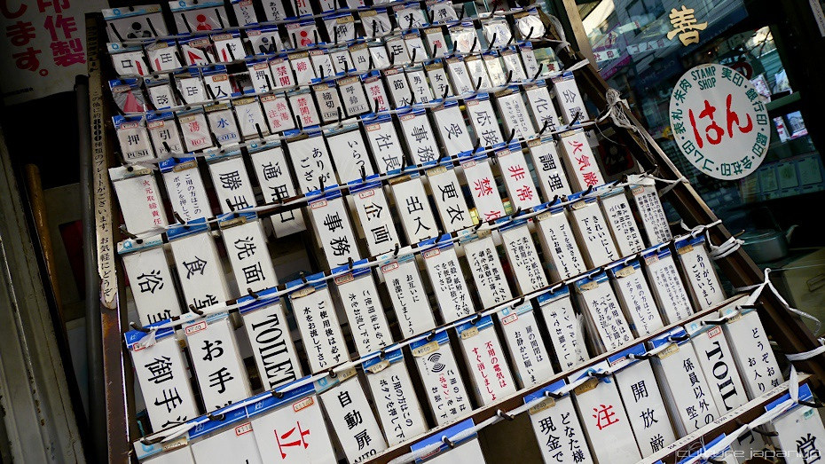 View more at